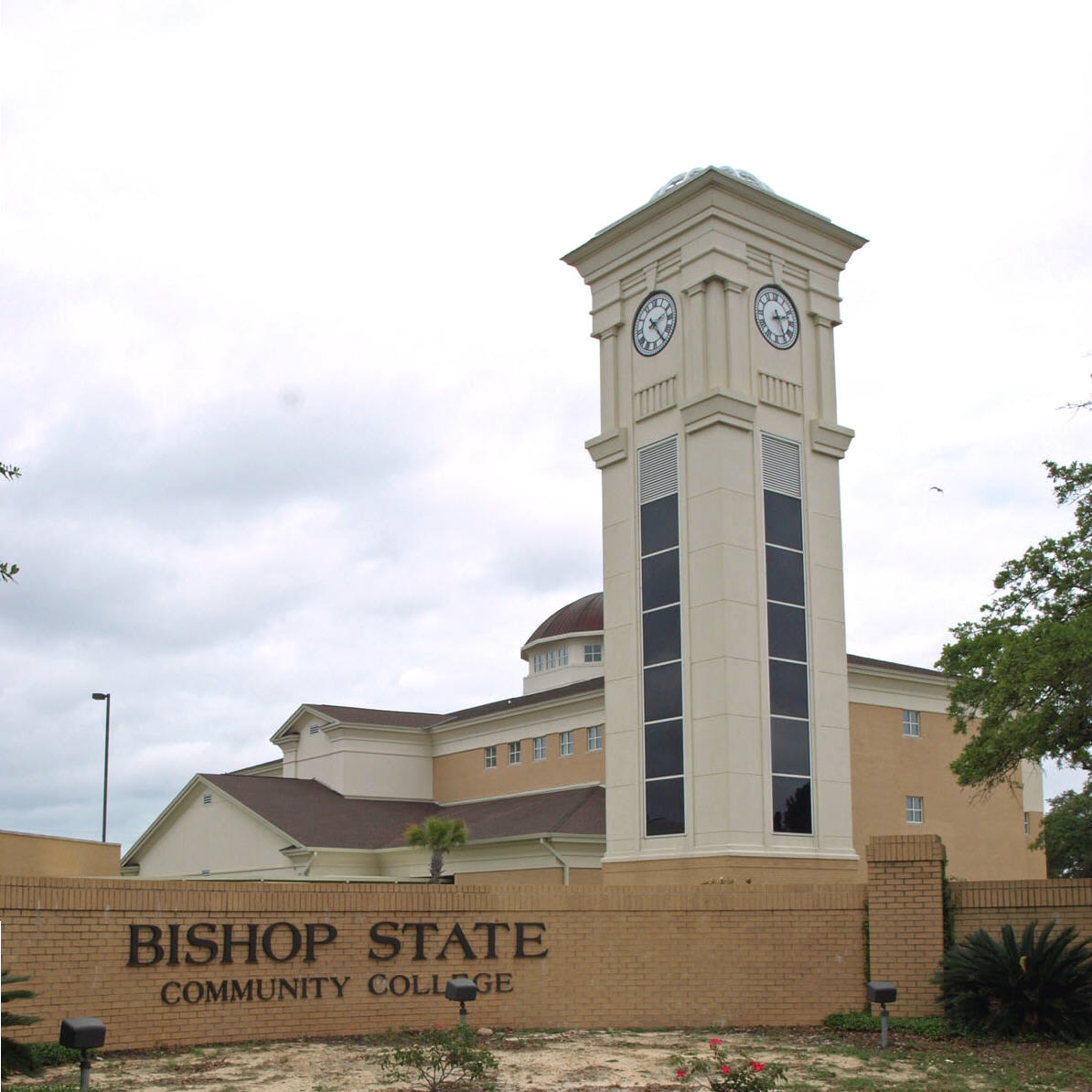 The clock tower at Bishop State Community College in Mobile, Alabama